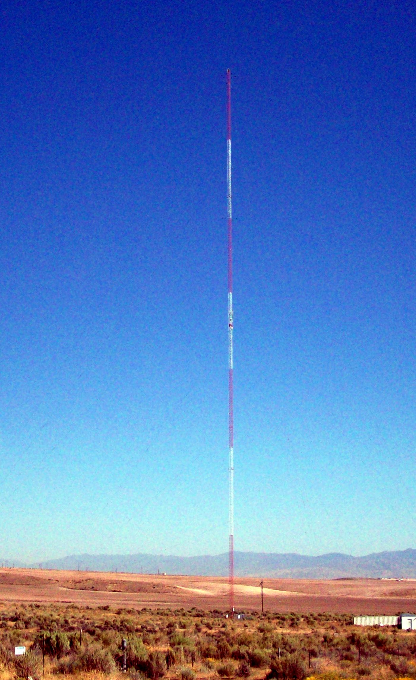 The tower for KDYL 1060 South Salt Lake City, Utah. Located near Copperton, Utah.